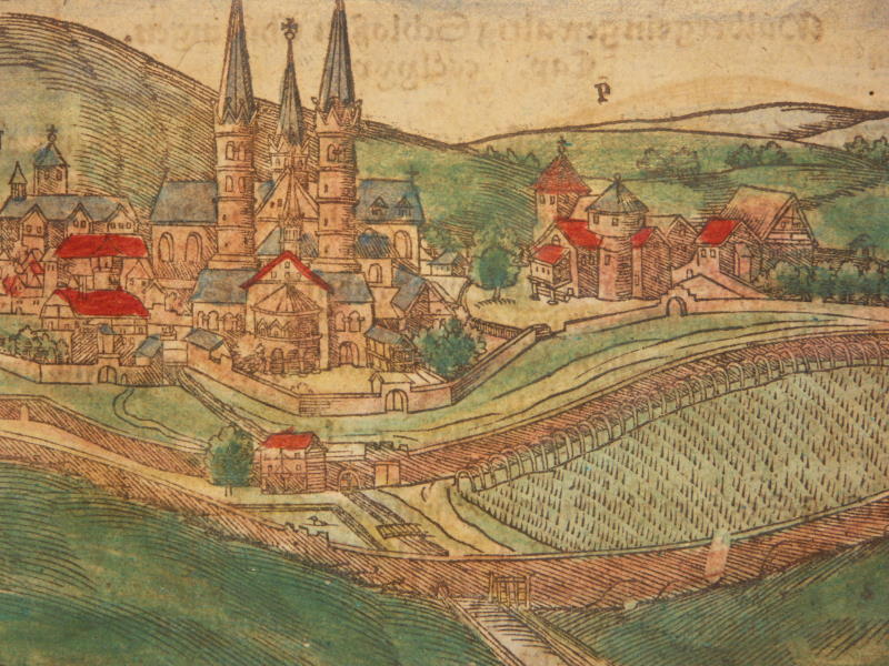 Sebastian Münster (1488-1552) was a German cartographer, cosmographer, and Hebrew scholar whose Cosmographia (1544; "Cosmography") was the earliest German description of the world and a major work in the revival of geographic thought in 16th-century Europe. Altogether, about 40 editions of the Cosmographia appeared between 1544 and 1628; Münster was a major influence on his subject for over 200 years. Münster acquired the material for his book in three ways. He used all available literary sources. He tried to obtain original manuscript material for description of the countryside and of villages and towns. Finally, he obtained further material on his travels (primarily in south-west Germany, Switzerland, and Alsace). Cosmographia not only contained the latest maps and views of many well-known cities, but also included an encyclopaedic amount of detail about the known -- and unknown -- world, and was undoubtedly one of the most widely read books of its time. Aside from the well-known maps present in the Cosmographia, the text is thickly sprinkled with vigorous views: portraits of kings and princes, costumes and occupations, habits and customs, flora and fauna, monsters, wonders, and horrors.